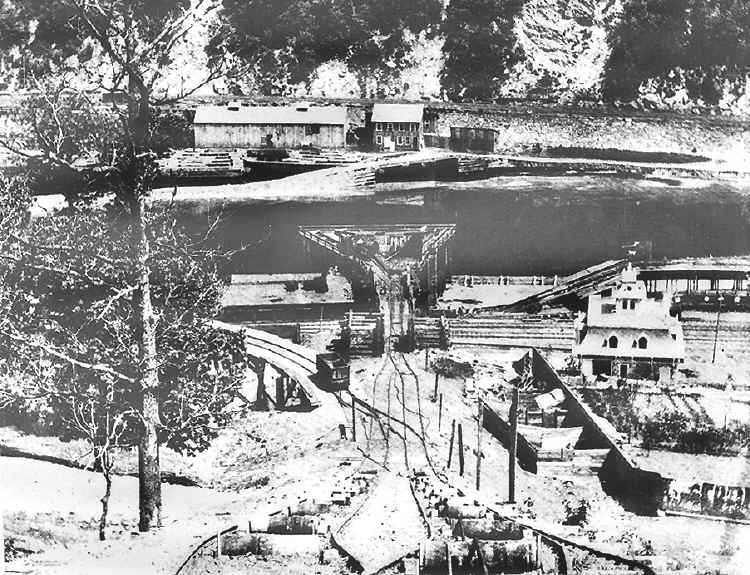 Mauch Chunk and Summit Hill Switchback Railroad, looking down on the boat landings at Mauch Chunk.